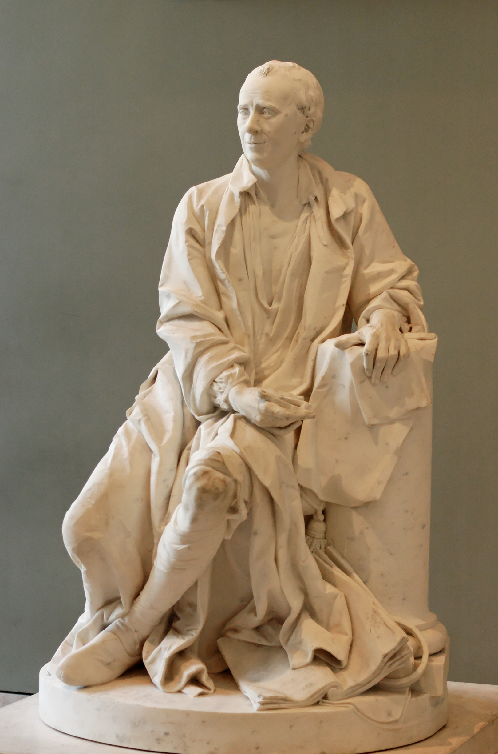 Portrait of French philosopher and writer D'Alembert (1717–1783)